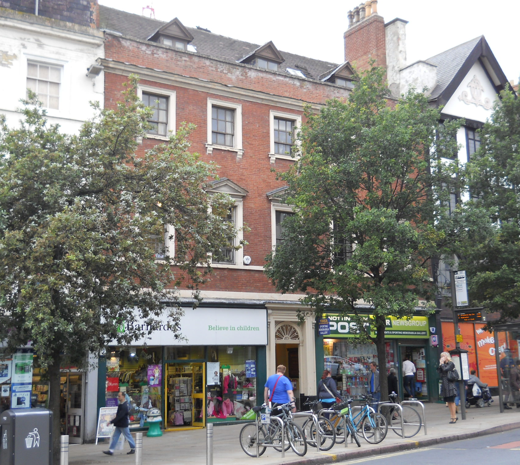 outside Bromley House, Angel Row, Nottingham, 10 September 2013. Shops added into the facade of Bromley House library in 1929 by Evans, Clark and Woollatt